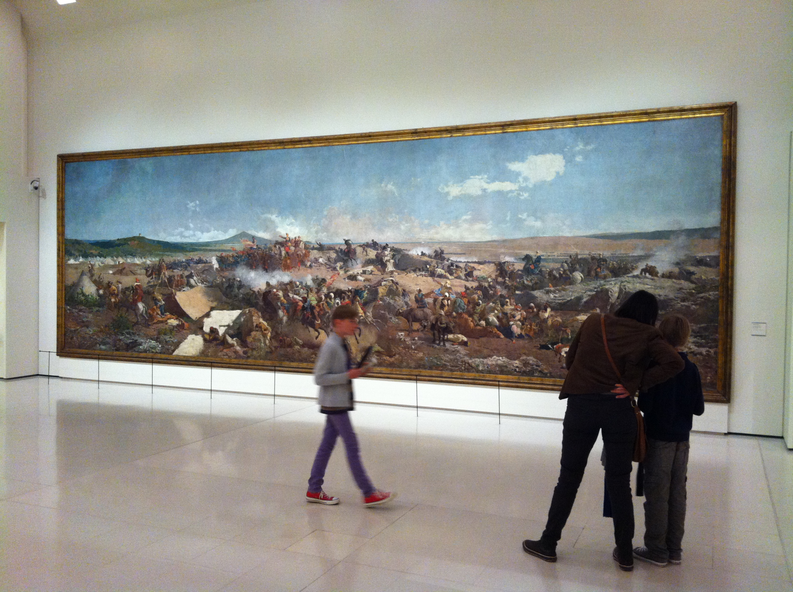 Interior rooms of Museu Nacional d'Art de Catalunya